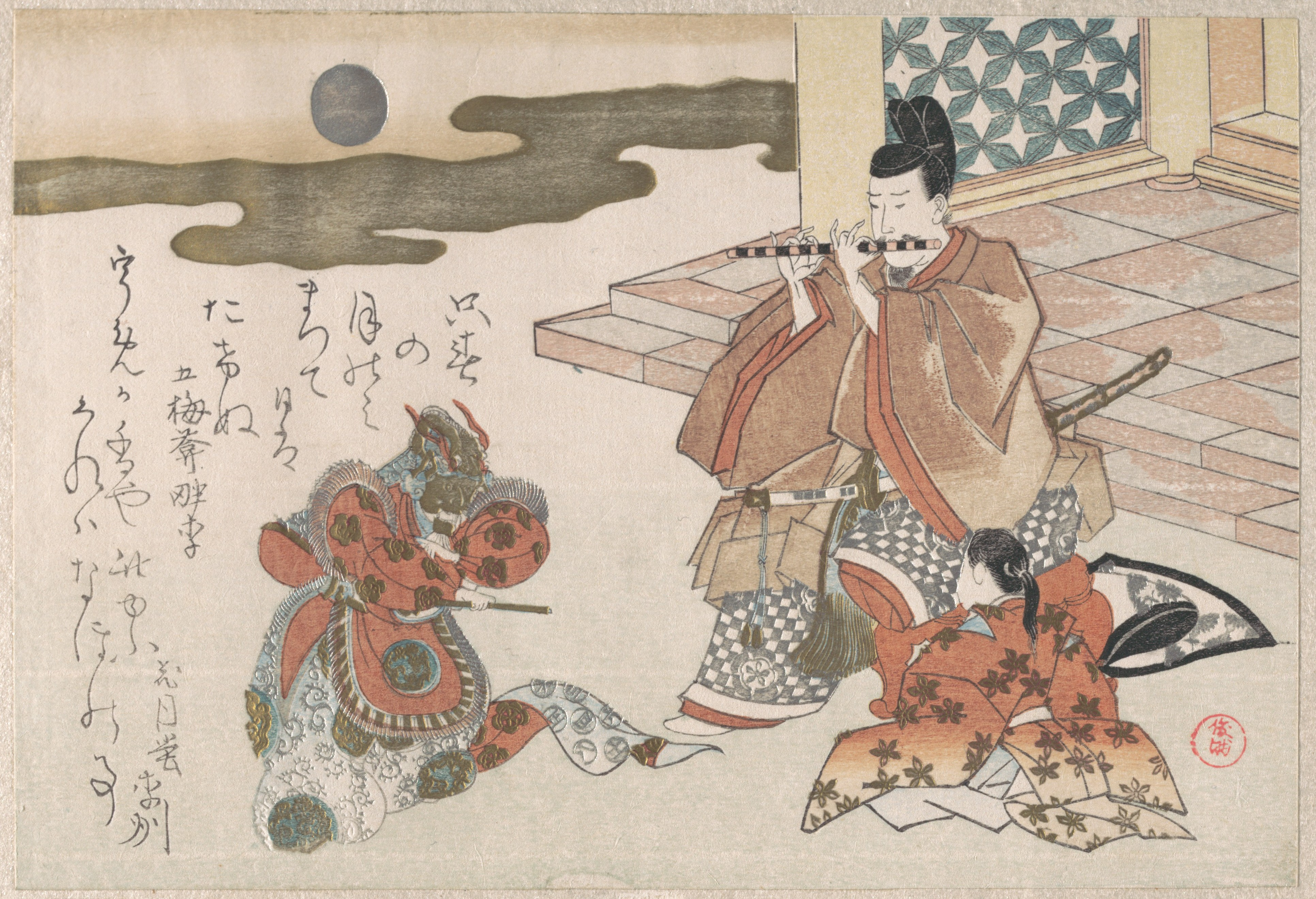 Courtier Playing a Flute to Accompany a Bugaku Dance